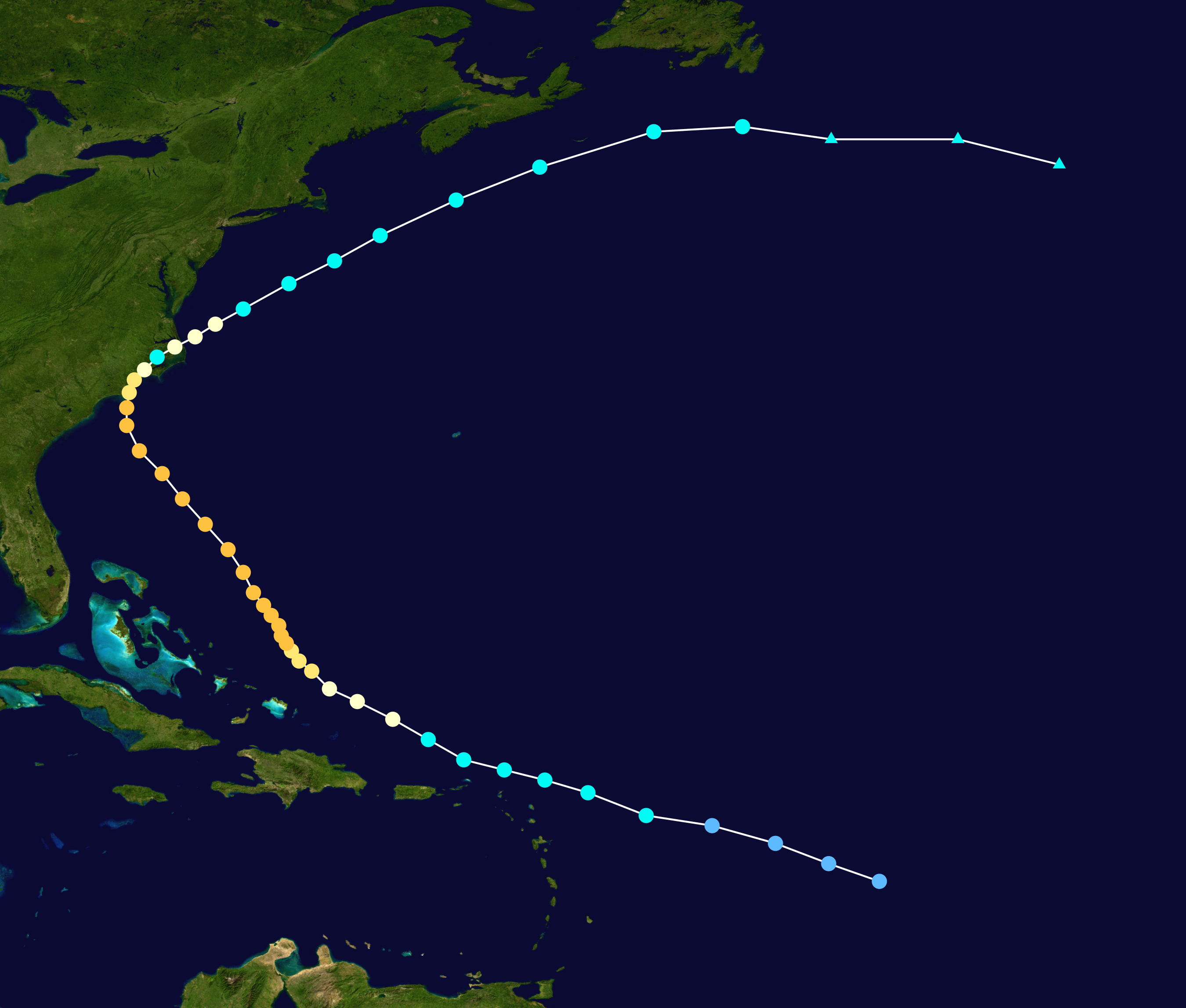 Track map of Hurricane Bonnie of the 1998 Atlantic hurricane season. The points show the location of the storm at 6-hour intervals. The colour represents the storm's maximum sustained wind speeds as classified in the Saffir–Simpson scale (see below), and the shape of the data points represent the nature of the storm, according to the legend below. Saffir–Simpson scale Tropical depression≤38 mph≤62 km/h Category 3111–129 mph178–208 km/h Tropical storm39–73 mph63–118 km/h Category 4130–156 mph209–251 km/h Category 174–95 mph119–153 km/h Category 5≥157 mph≥252 km/h Category 296–110 mph154–177 km/h Unknown Storm type Tropical cyclone Subtropical cyclone Extratropical cyclone / Remnant low / Tropical disturbance / Monsoon depression